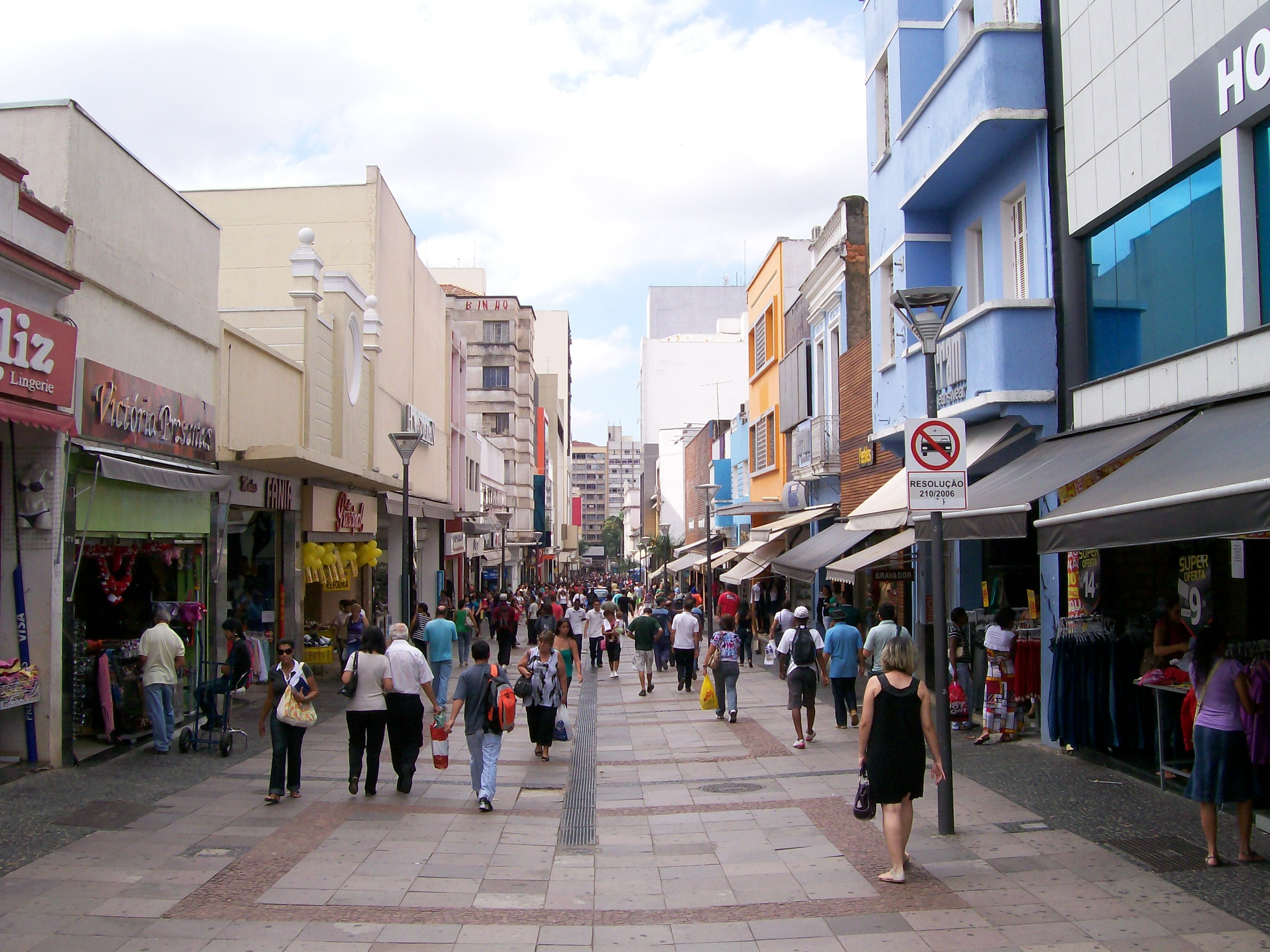 13 de Maio (May 13th) Street. Campinas, Brazil.